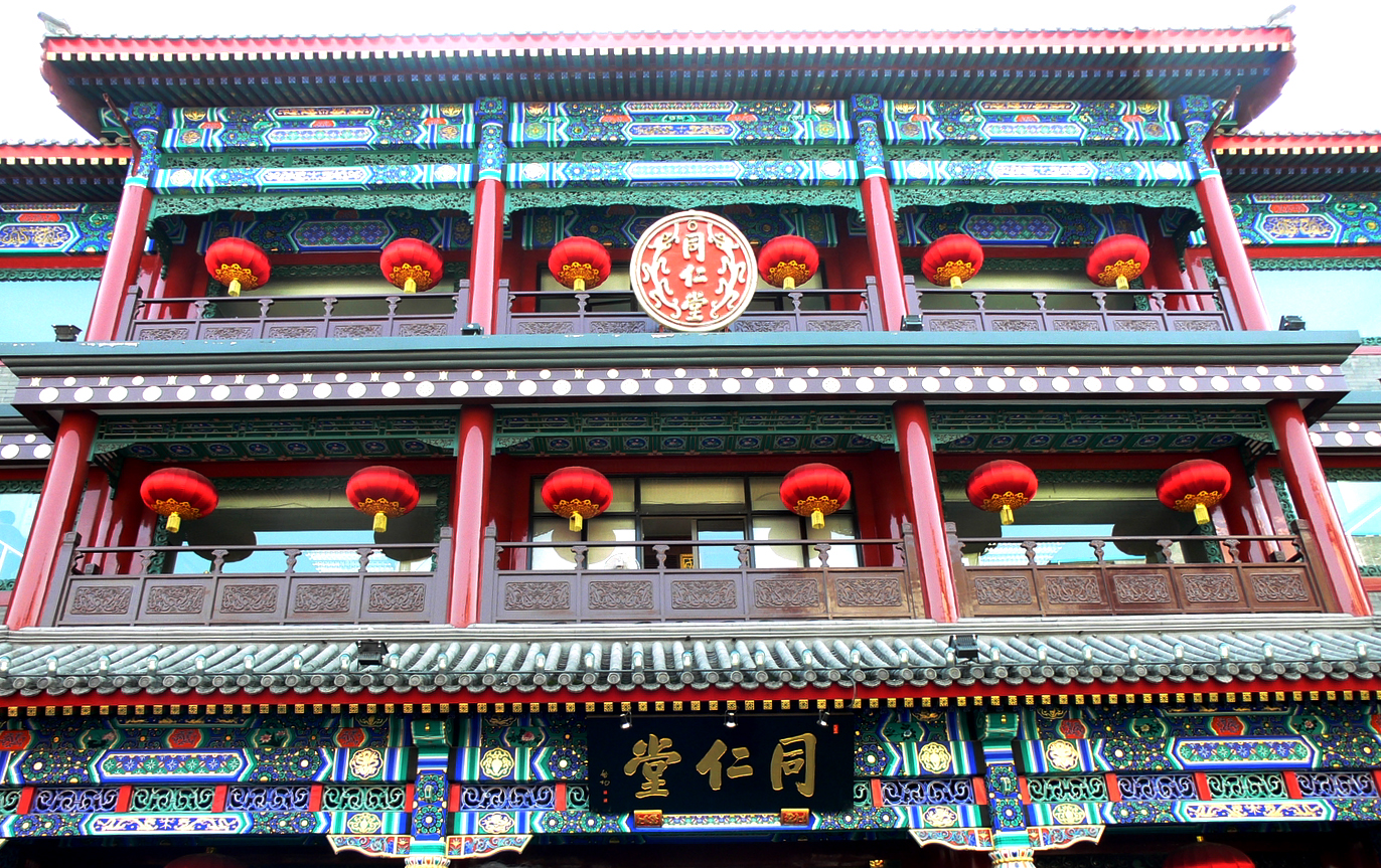 Beijing Qianmen Street Tongrentang